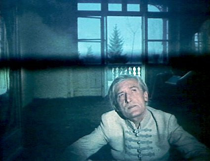 Ferencz Kazinczy remembers Psyche